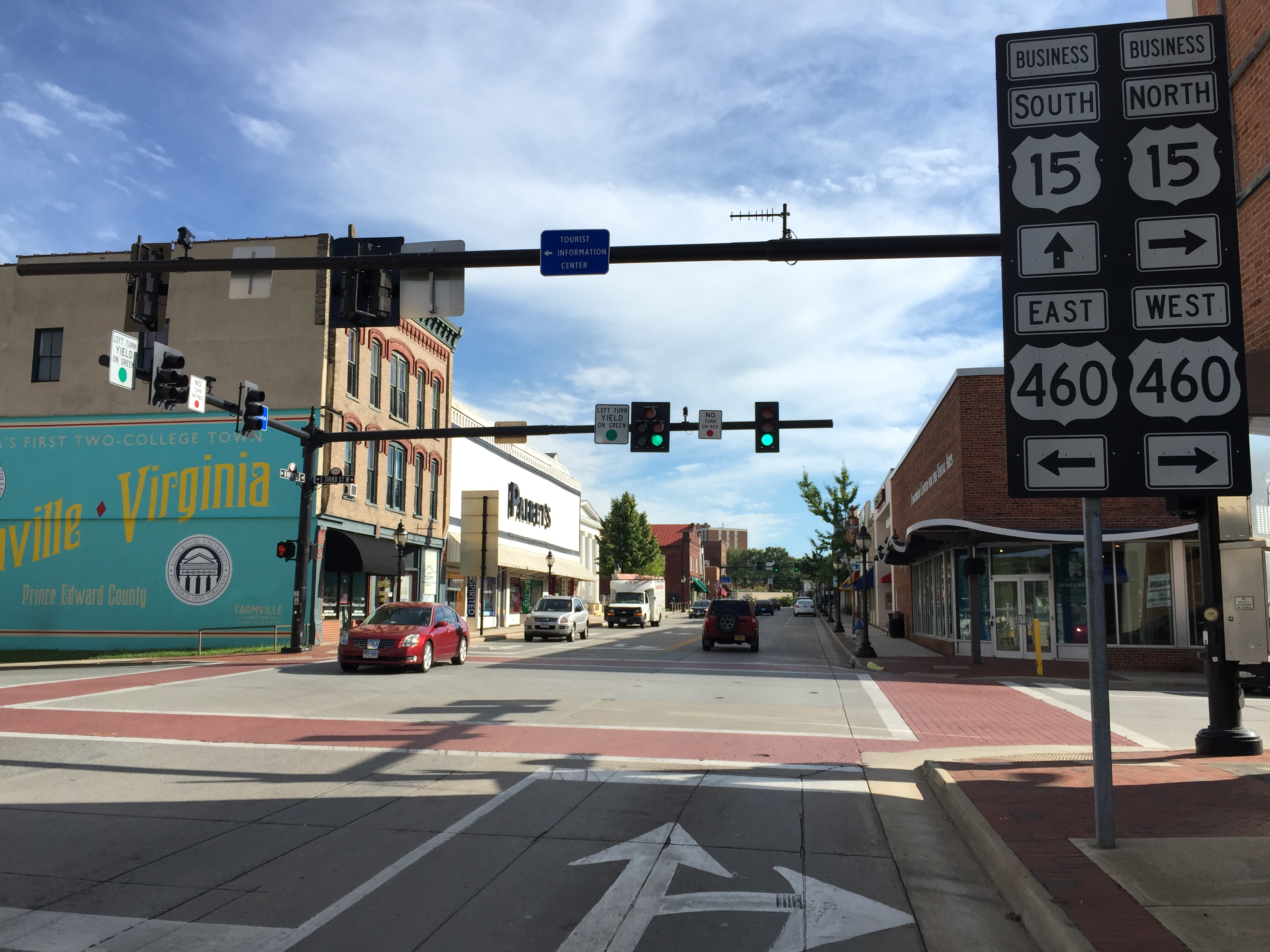 View south along U.S. Route 15 Business (Main Street) at U.S. Route 460 Business (Third Street) and at the south end of Virginia State Route 45 in Farmville, Prince Edward County, Virginia